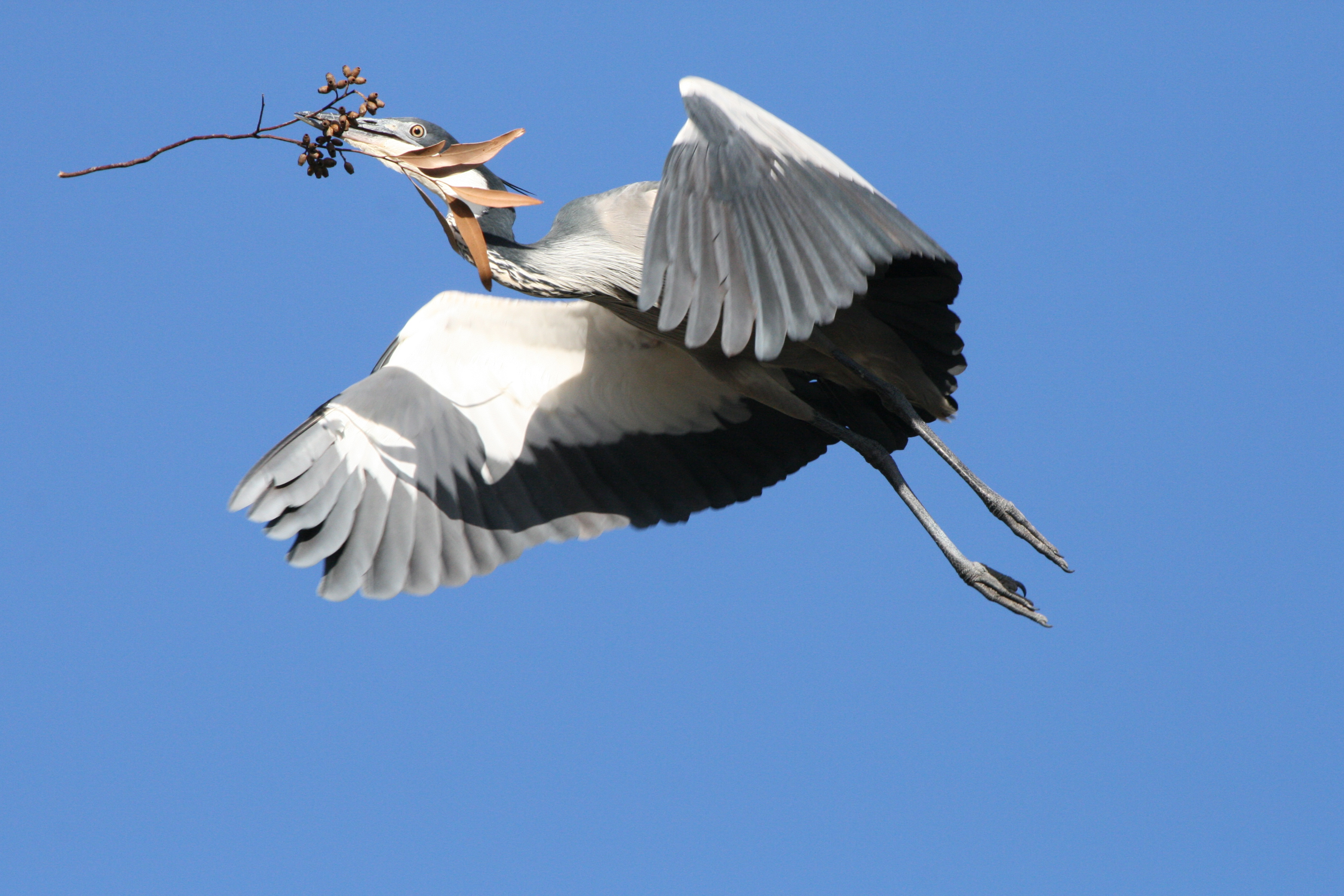 Black-headed Heron, Ardea melanocephala, carrying nest material. Stanford, Western Cape, South Africa.